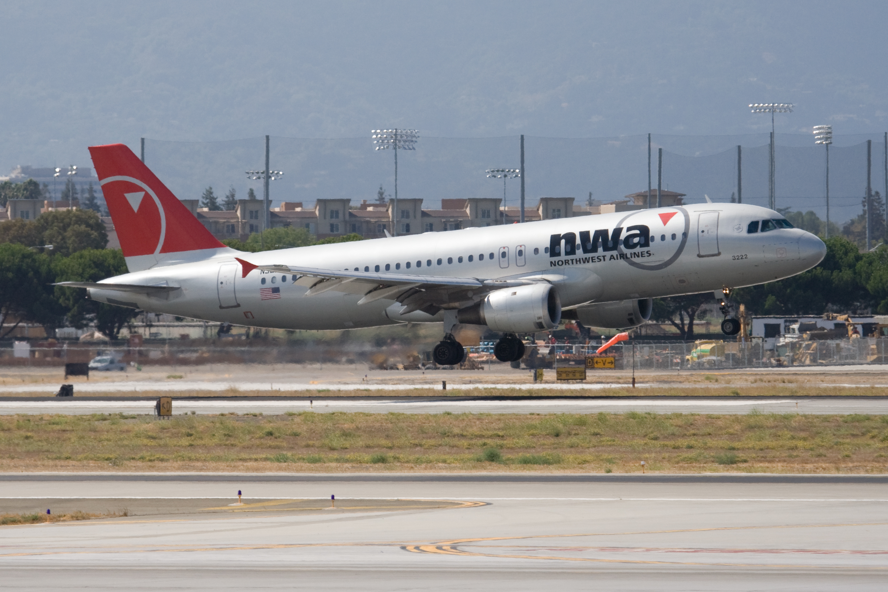 Northwest Airlines A320 upon takeoff at San Jose International Airport